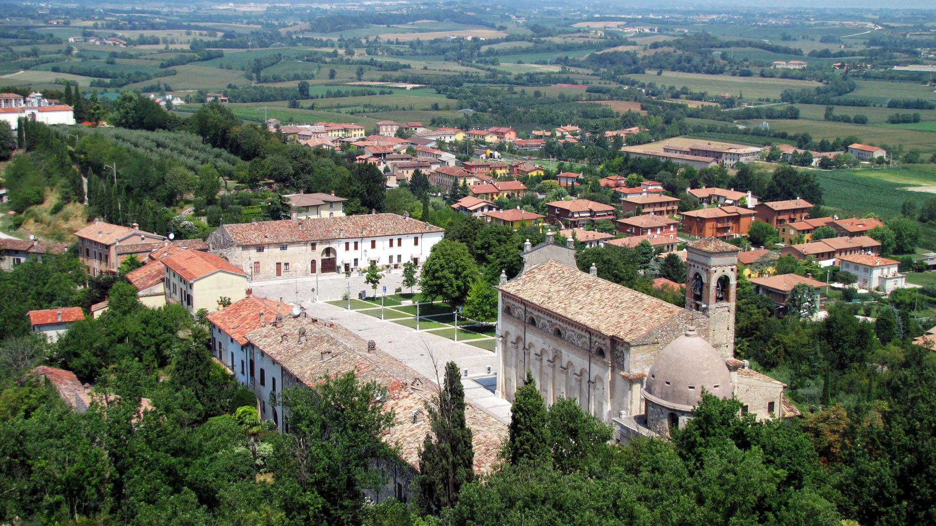 View of the town of Solferino and the church of San Pietro in Vincoli, Lombardy, Italy. Solferino was the place of the battle of the same name, which was the trigger for the Swiss Henry Dunant to found what is now known as the Red Cross.